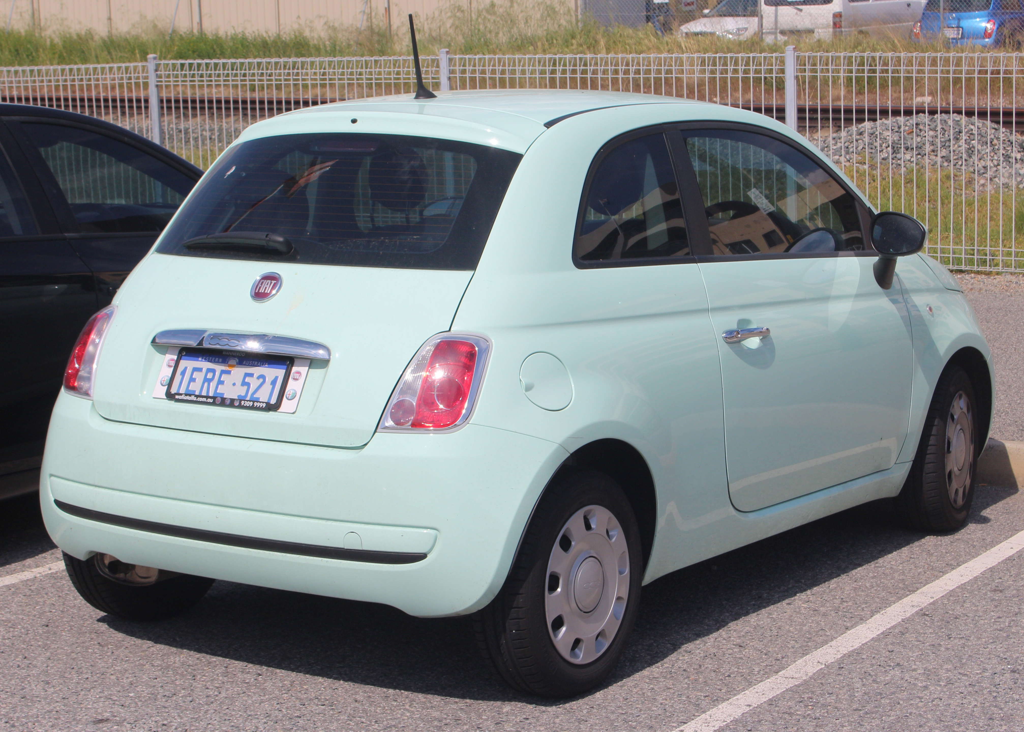 2015 Fiat 500 Pop hatchback. Photographed in Fremantle, Western Australia, Australia.